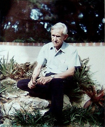 Mulford Foster at his 12 acre bromeliad sanctuary Bromel-La